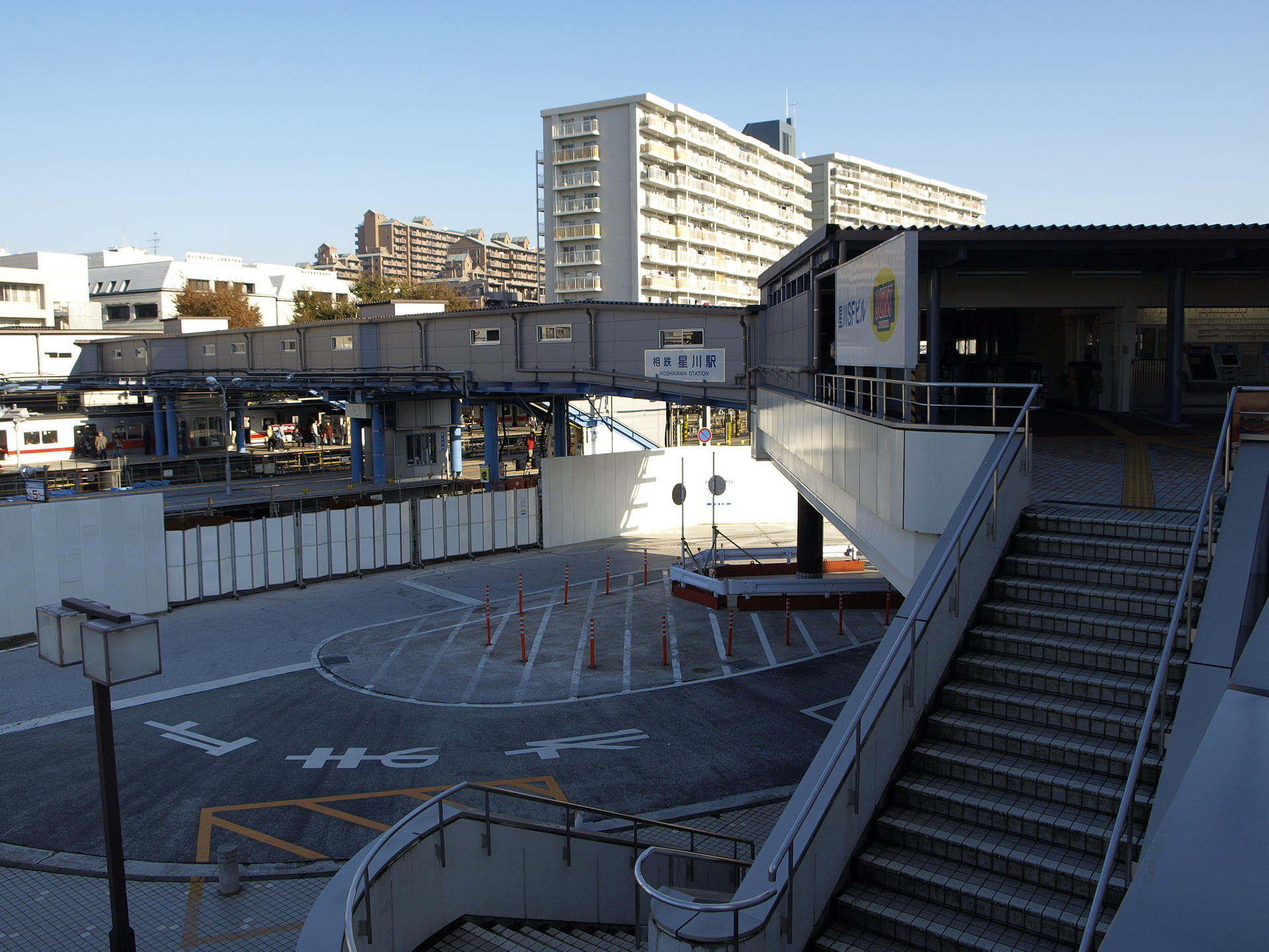 Hoshikawa Station of Sagami Railway(South exit)